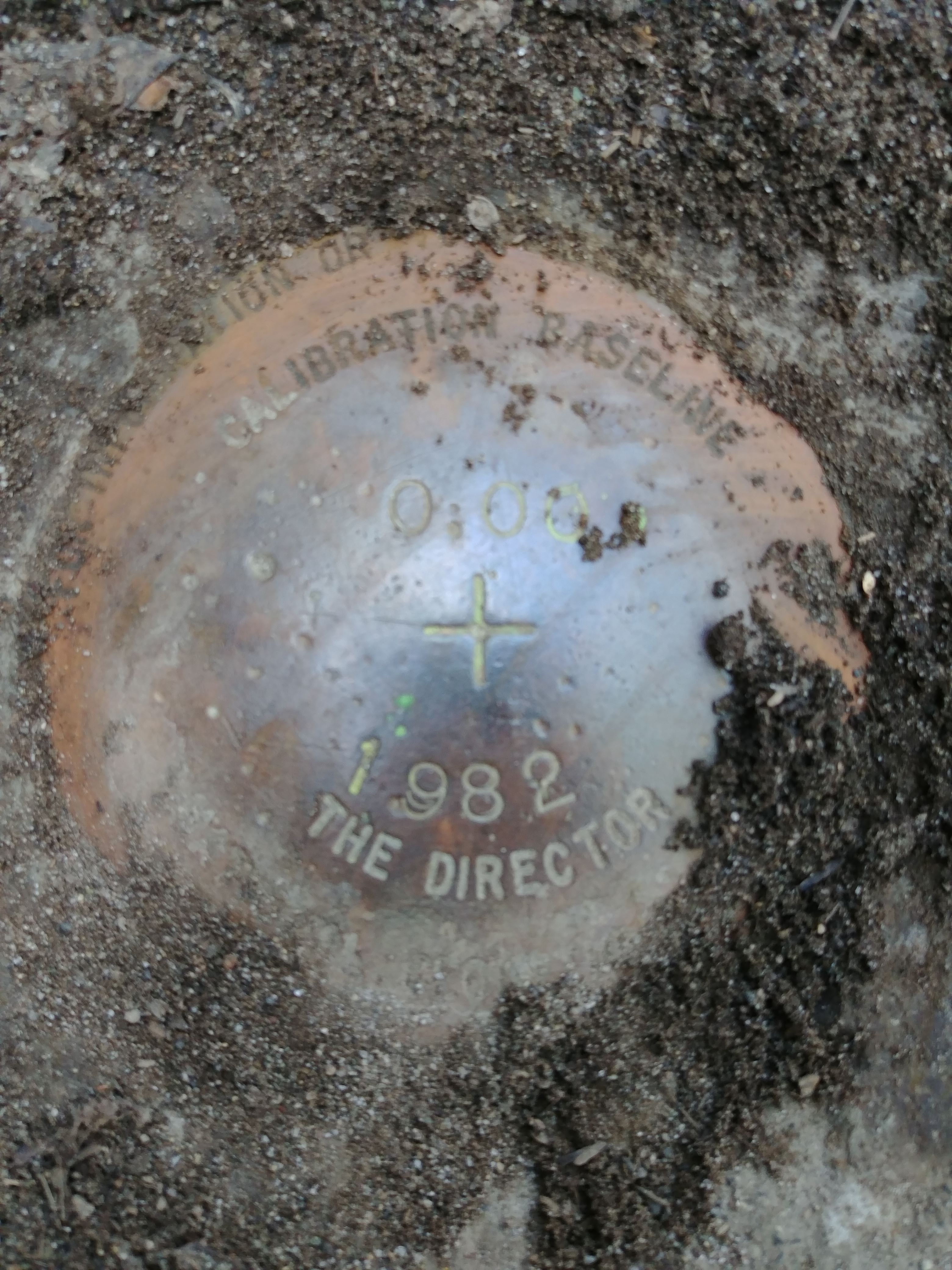 Sand Point Calibration Baseline zero point geodetic marker